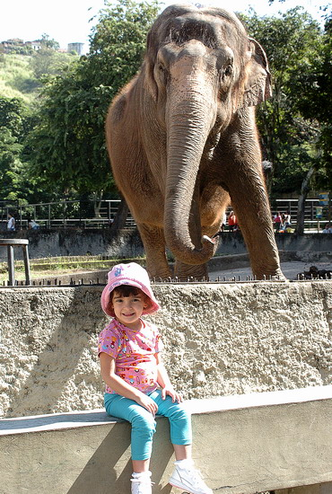 Girl at Zoo.